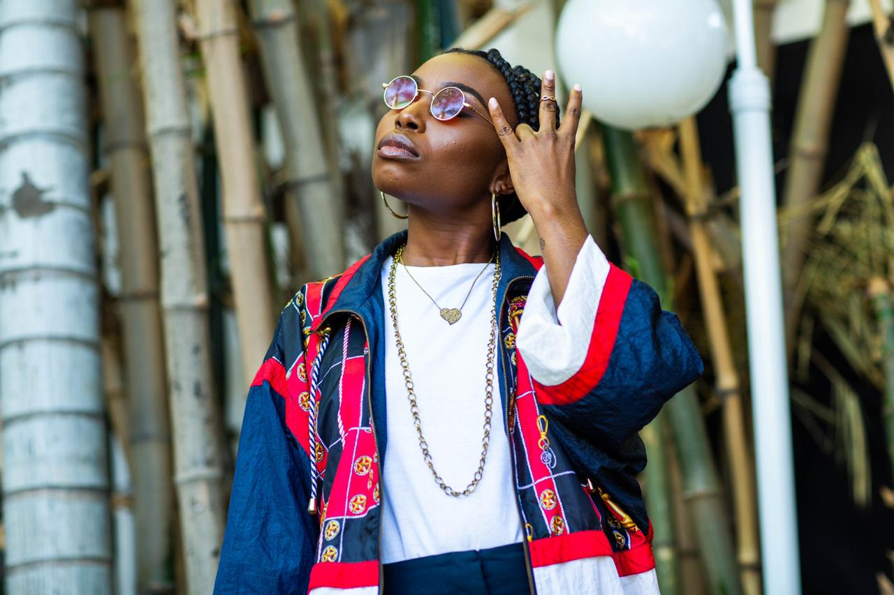 Rapper Mamy's picture